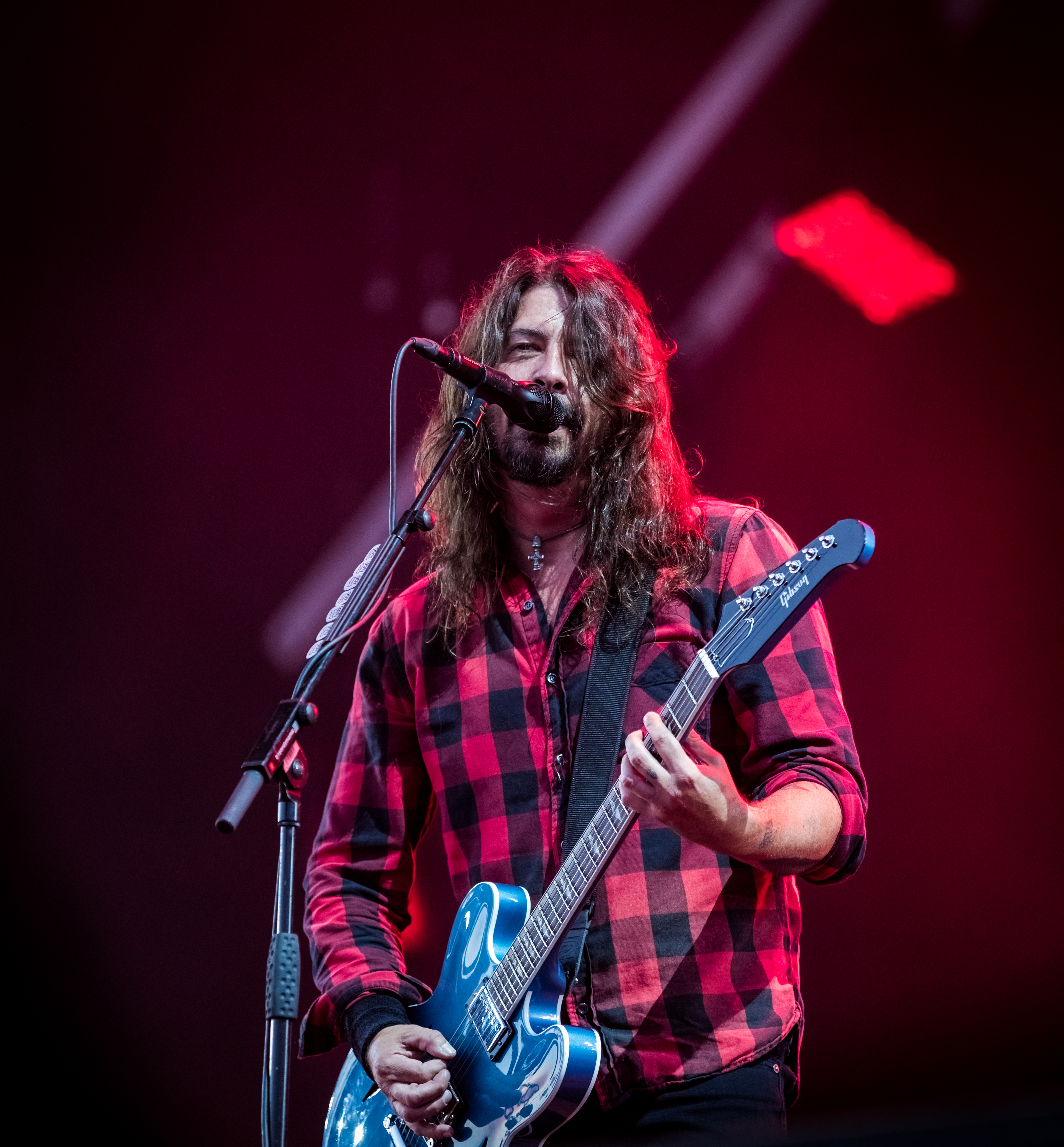 Foo Fighters - Rock am Ring 2018